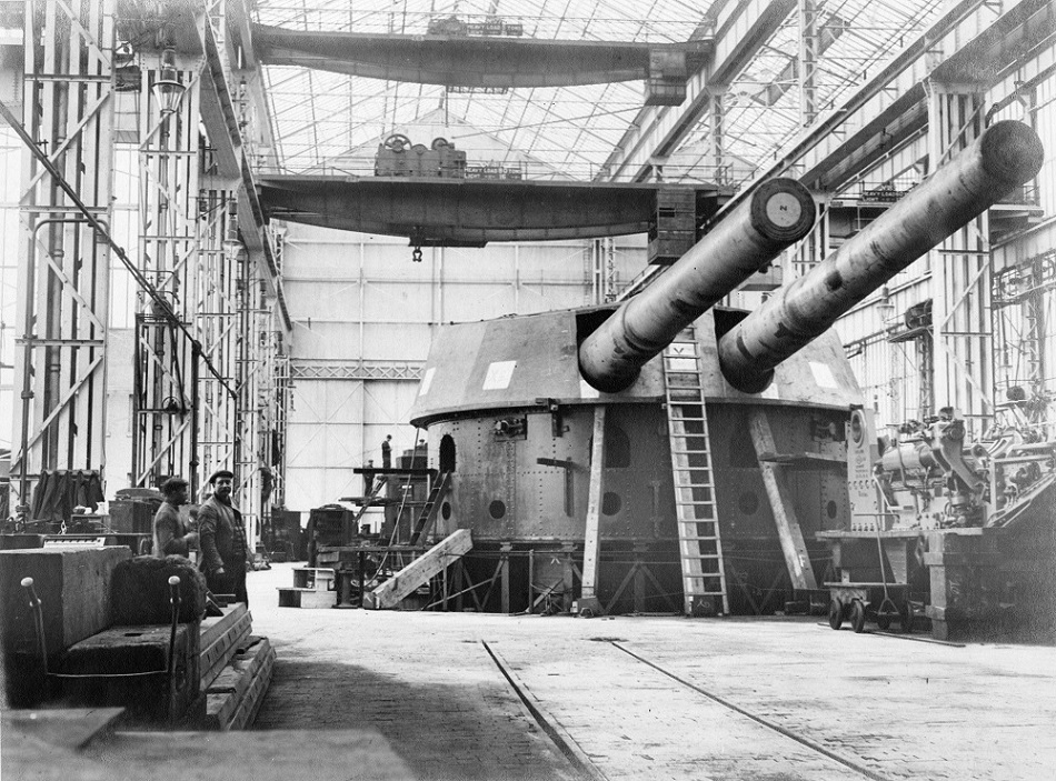 Naval gun mounting at the Elswick Works, Newcastle upon Tyne, c1911 (TWAM ref. DS.VA/9/PH/3/1). ‘Workshop of the World’ is a phrase often used to describe Britain’s manufacturing dominance during the Nineteenth Century. It’s also a very apt description for the Elswick Works and Scotswood Works of Vickers Armstrong and its predecessor companies. These great factories, situated in Newcastle along the banks of the River Tyne, employed hundreds of thousands of men and women and built a huge variety of products for customers around the globe. The Elswick Works was established by William George Armstrong (later Lord Armstrong) in 1847 to manufacture hydraulic cranes. From these relatively humble beginnings the company diversified into many fields including shipbuilding, armaments and locomotives. By 1953 the Elswick Works covered 70 acres and extended over a mile along the River Tyne. This set of images, mostly taken from our Vickers Armstrong collection, includes fascinating views of the factories at Elswick and Scotswood, the products they produced and the people that worked there. By preserving these archives we can ensure that their legacy lives on. (Copyright) We're happy for you to share this digital image within the spirit of The Commons. Please cite 'Tyne & Wear Archives & Museums' when reusing. Certain restrictions on high quality reproductions and commercial use of the original physical version apply though; if you're unsure please .